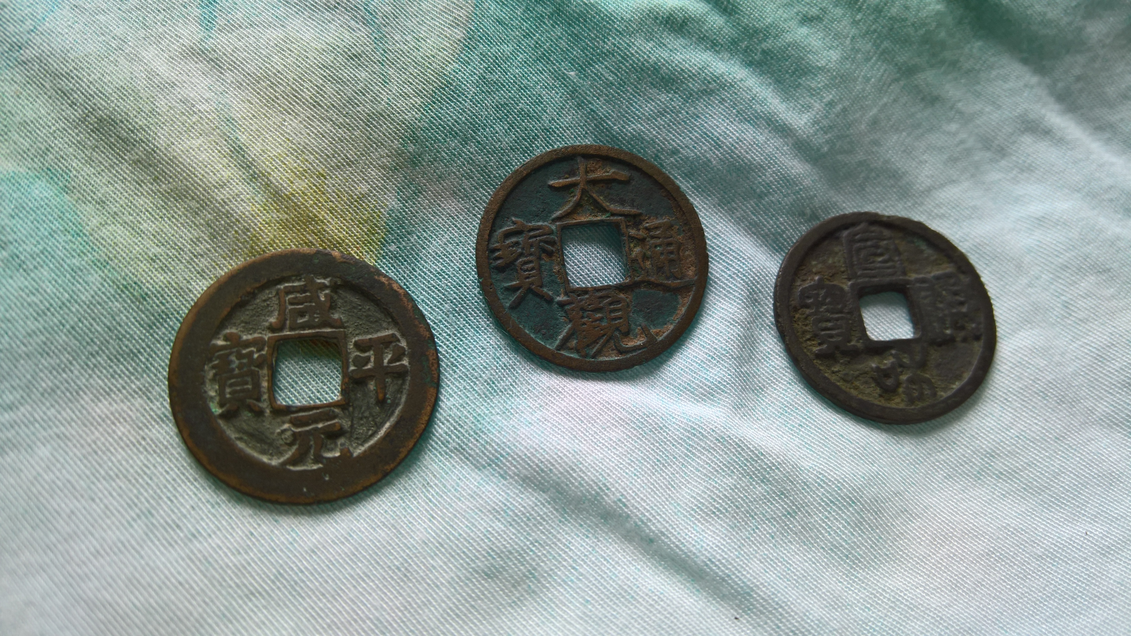 咸平元寶 (Hànyǔ Pīnyīn: Xián Píng Yuán Bǎo) Era of production: 998–1003. Reads: Clockwise. 🕖👀 大觀通寶 (Hànyǔ Pīnyīn: Dà Guān Tōng Bǎo) Era of production: 1107–1110. Reads: Top-Bottom-Right-Left. 🀄⬆⬇➡⬅ The inscription is written in what David Hartill describes as "Slender-gold script", and it is said that the inscription was stylised by the Emperor himself. ✍🏻🤴🏻 宣和通寶 (Hànyǔ Pīnyīn: Xuān Hé Tōng Bǎo) Era of production: Reads: 1119–1125. Top-Bottom-Right-Left. 🀄⬆⬇➡⬅ Uploaded from my Microsoft Lumia 950 XL with Microsoft Windows 10 Mobile 📱.